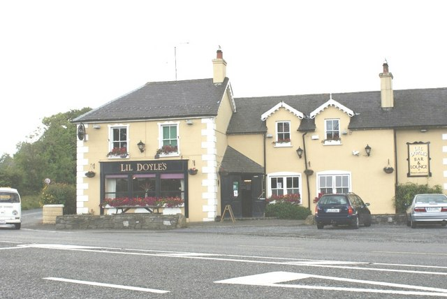 Lil Doyle's at Ballinacor East Situated on the crossroads beside the N11.